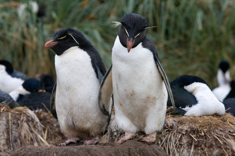 Rockhopper penguin